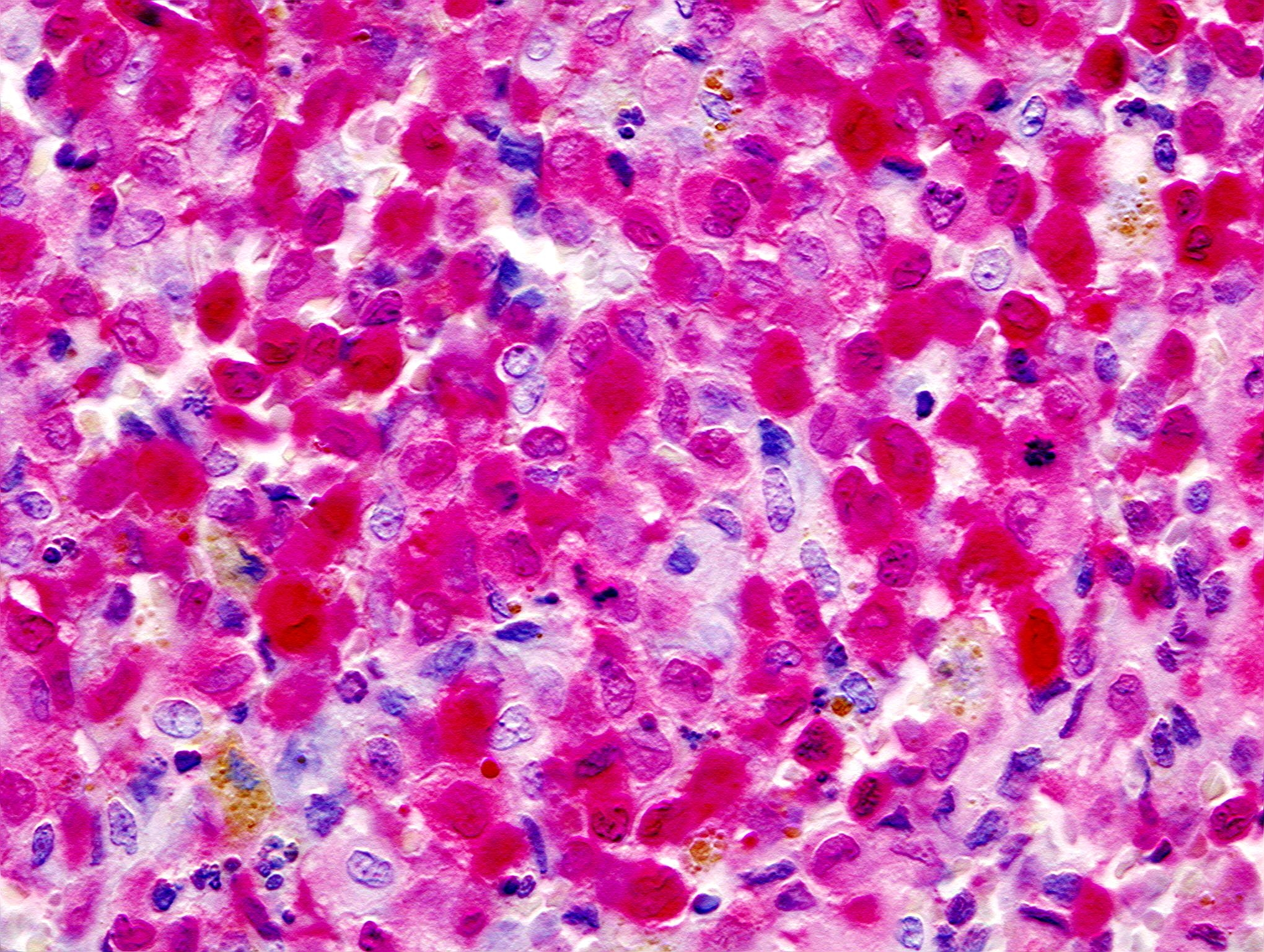 Histopathogic image of eosinophilic granuloma of the jaw. The same case as shown in a file "Eosinophic_granuloma_(1)_jaw_bone.jpg". S-100 immunostain.